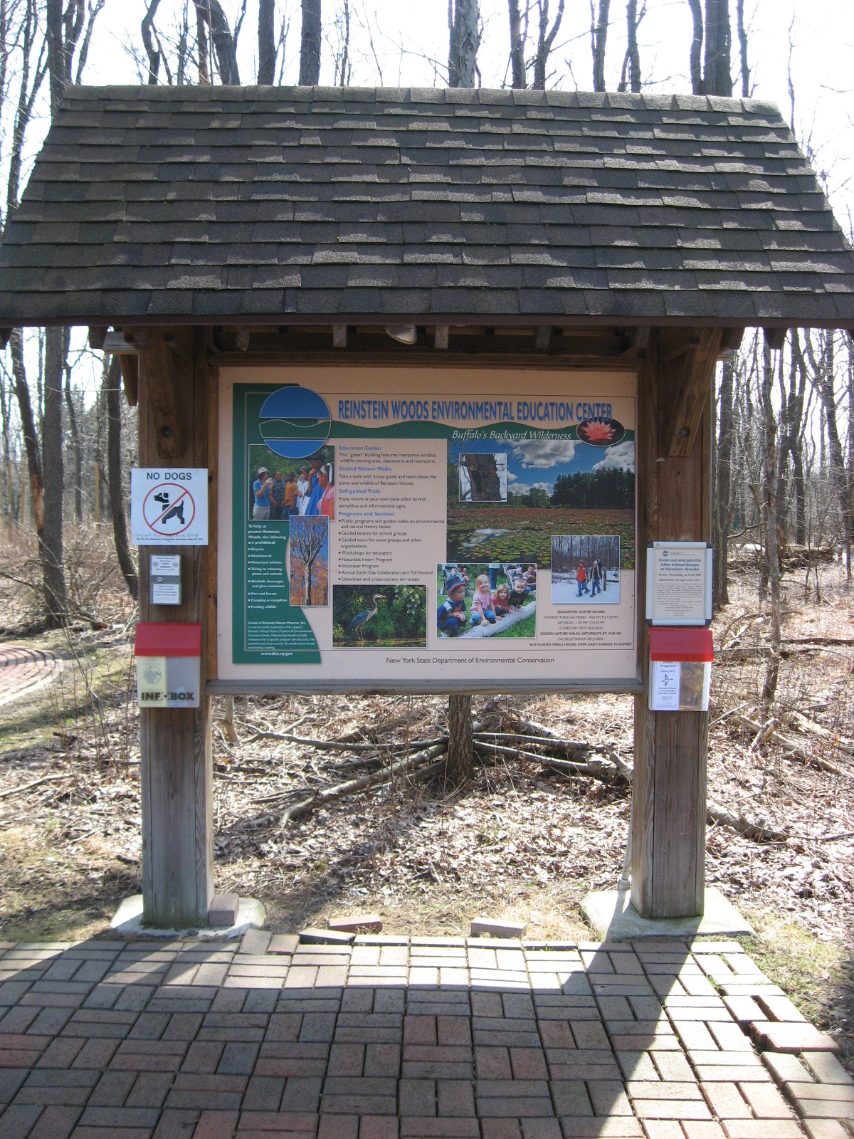 PD-US-unpublished Own Work, all rights released (public domain)